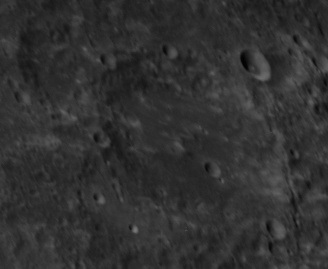 Oblique view of Vestine, on the far side of the moon. North is at top.